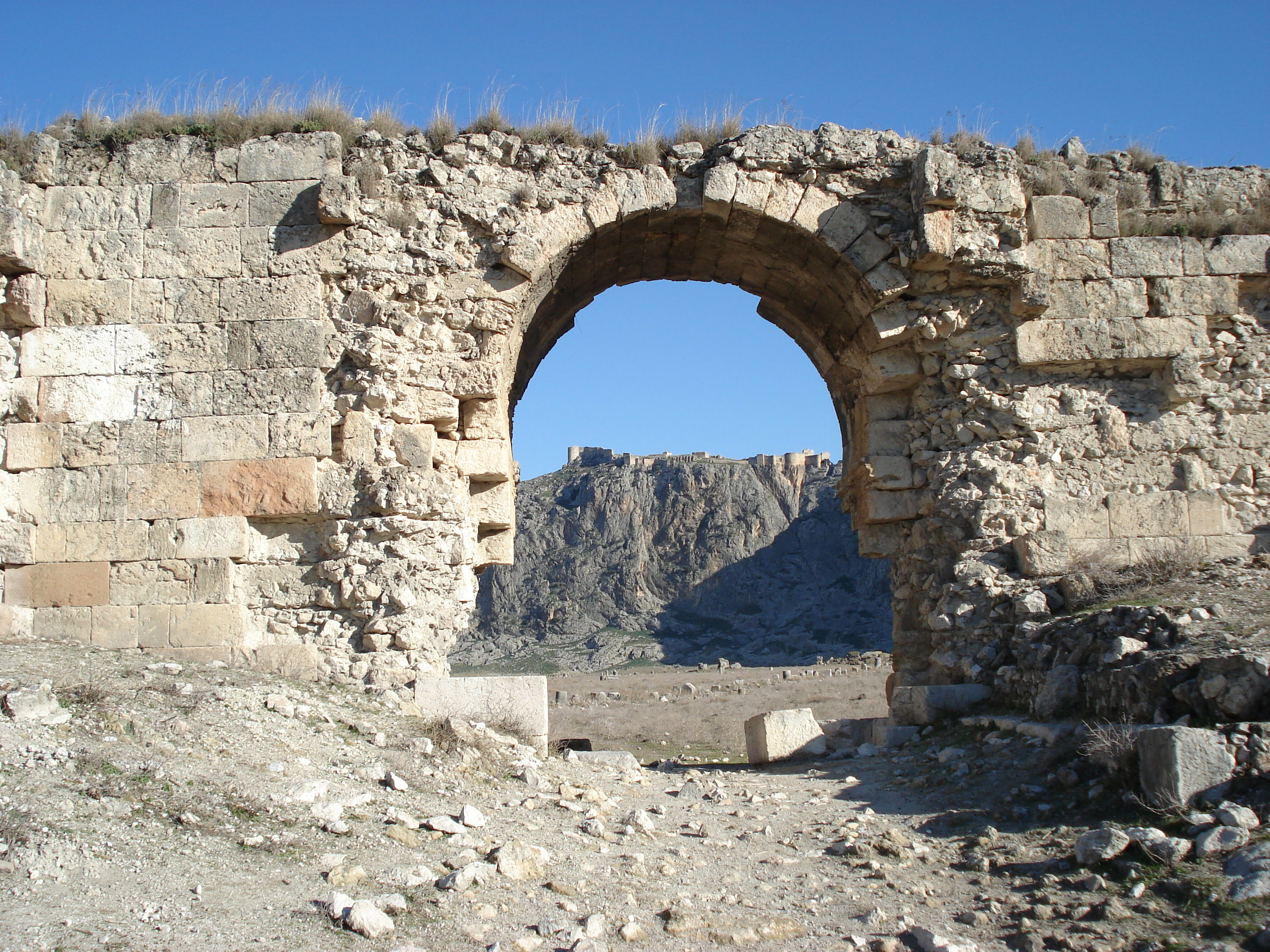 anazarbus clikya west gate and anvarza castle